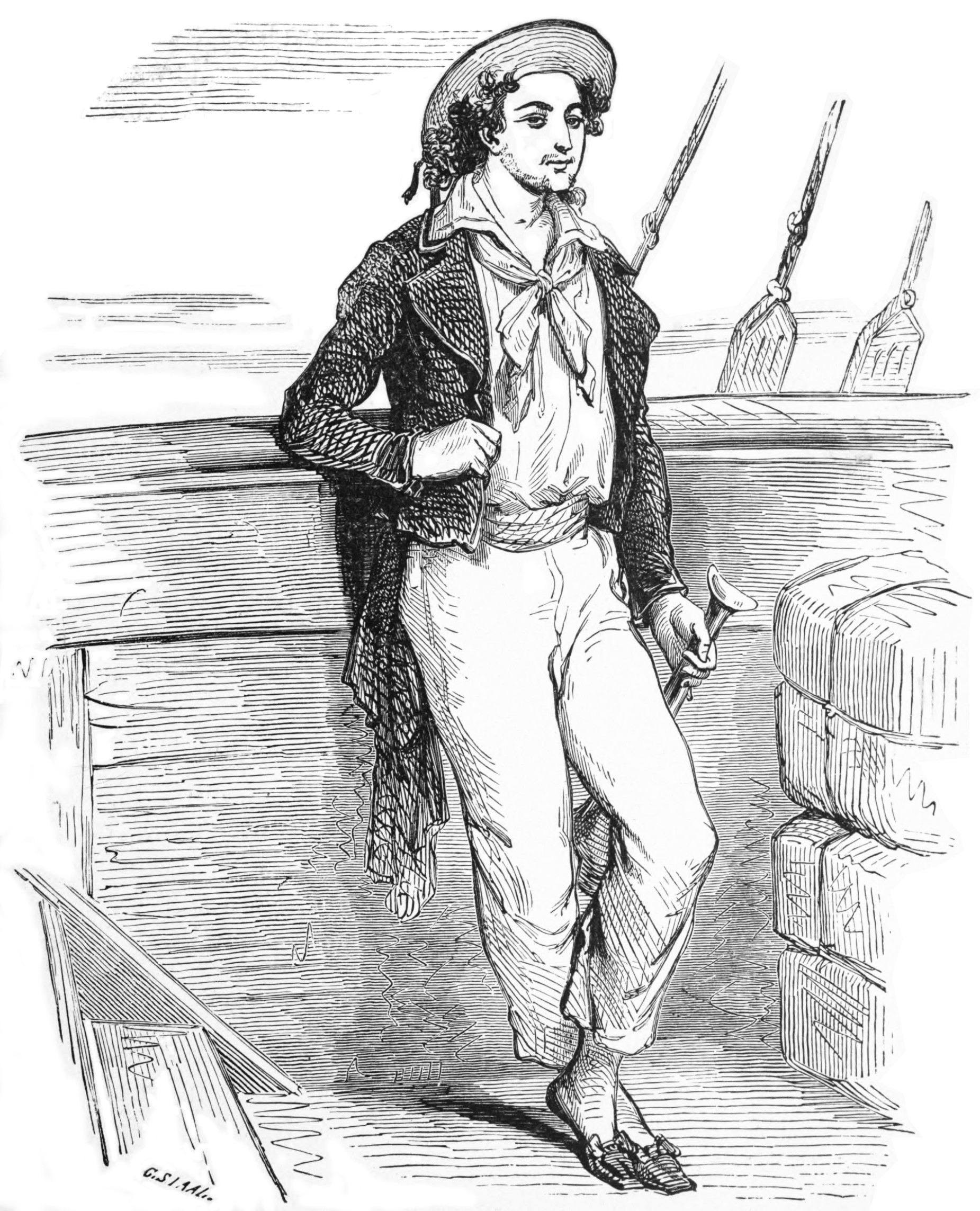 Illustration of Edmond Dantès by Pierre Gustave Eugene Staal from the 1888 edition of The Count of Monte Cristo.